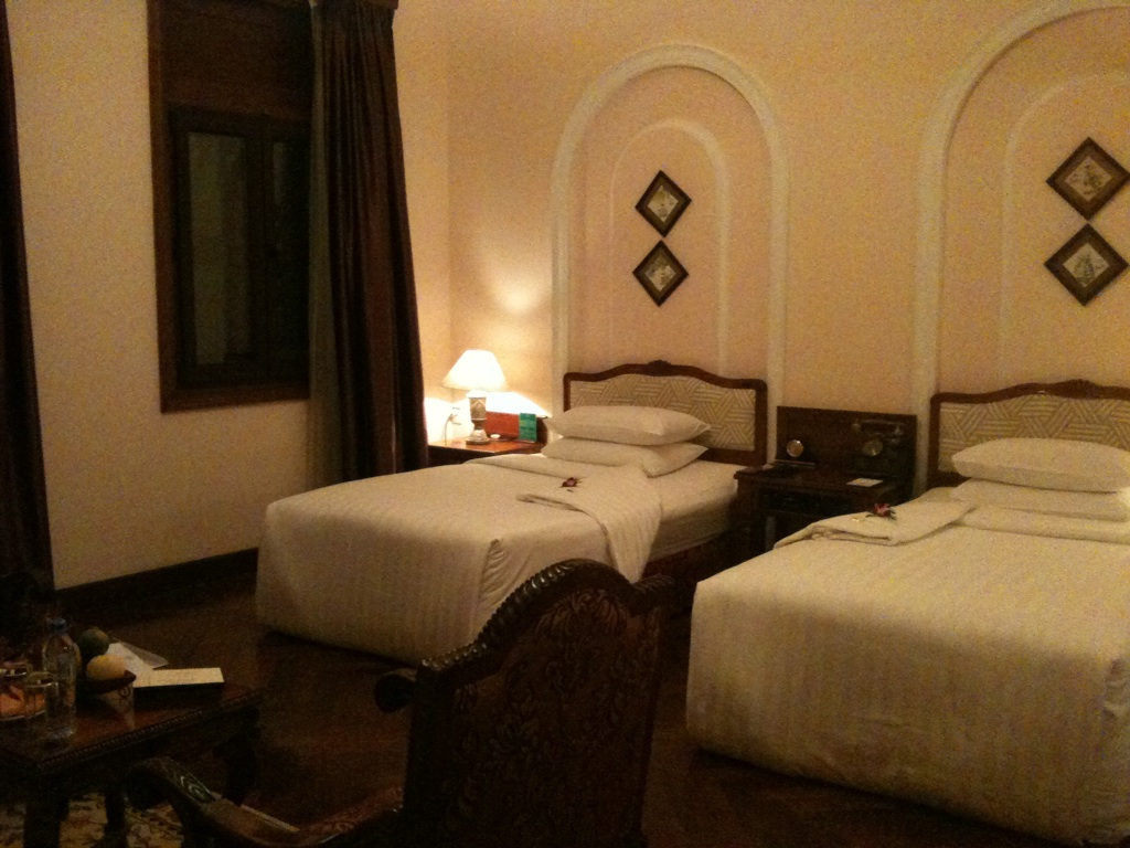 Majestic Hotel Saigon Riverside deluxe